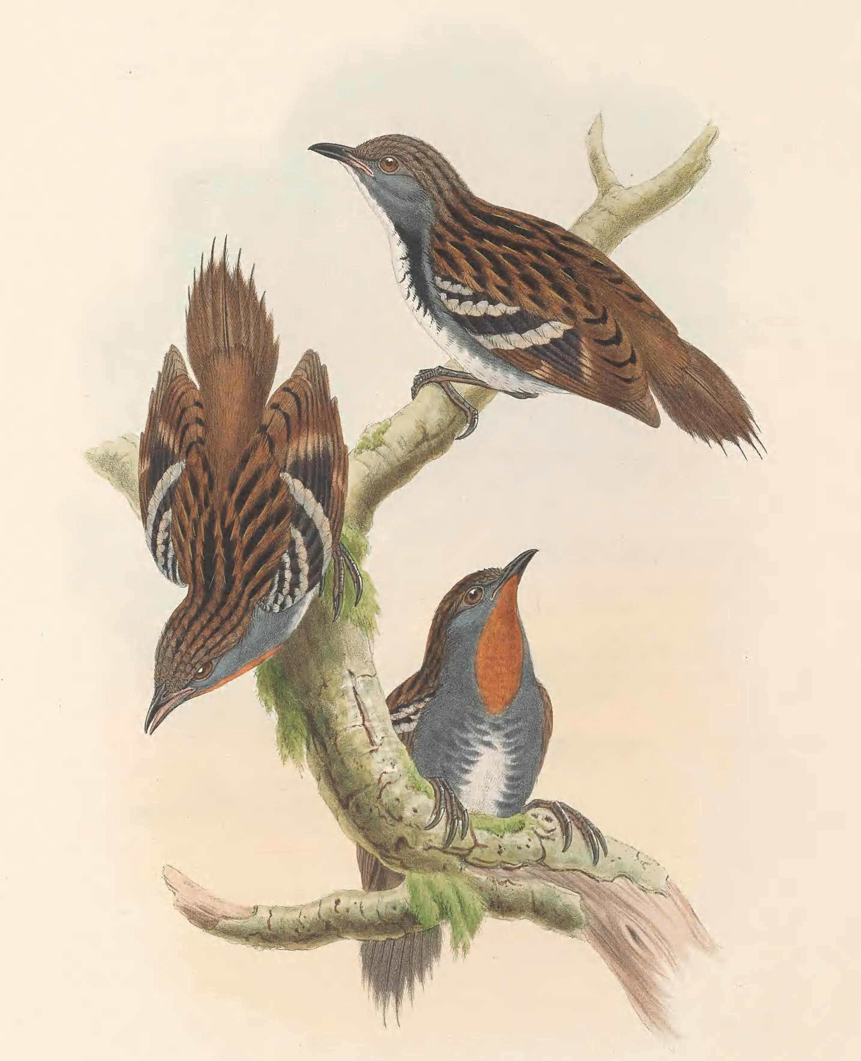 Orthonyx novaeguineae in The birds of New Guinea and the adjacent Papuan islands, including many new species recently discovered in Australia. v.3 (Plate 9).